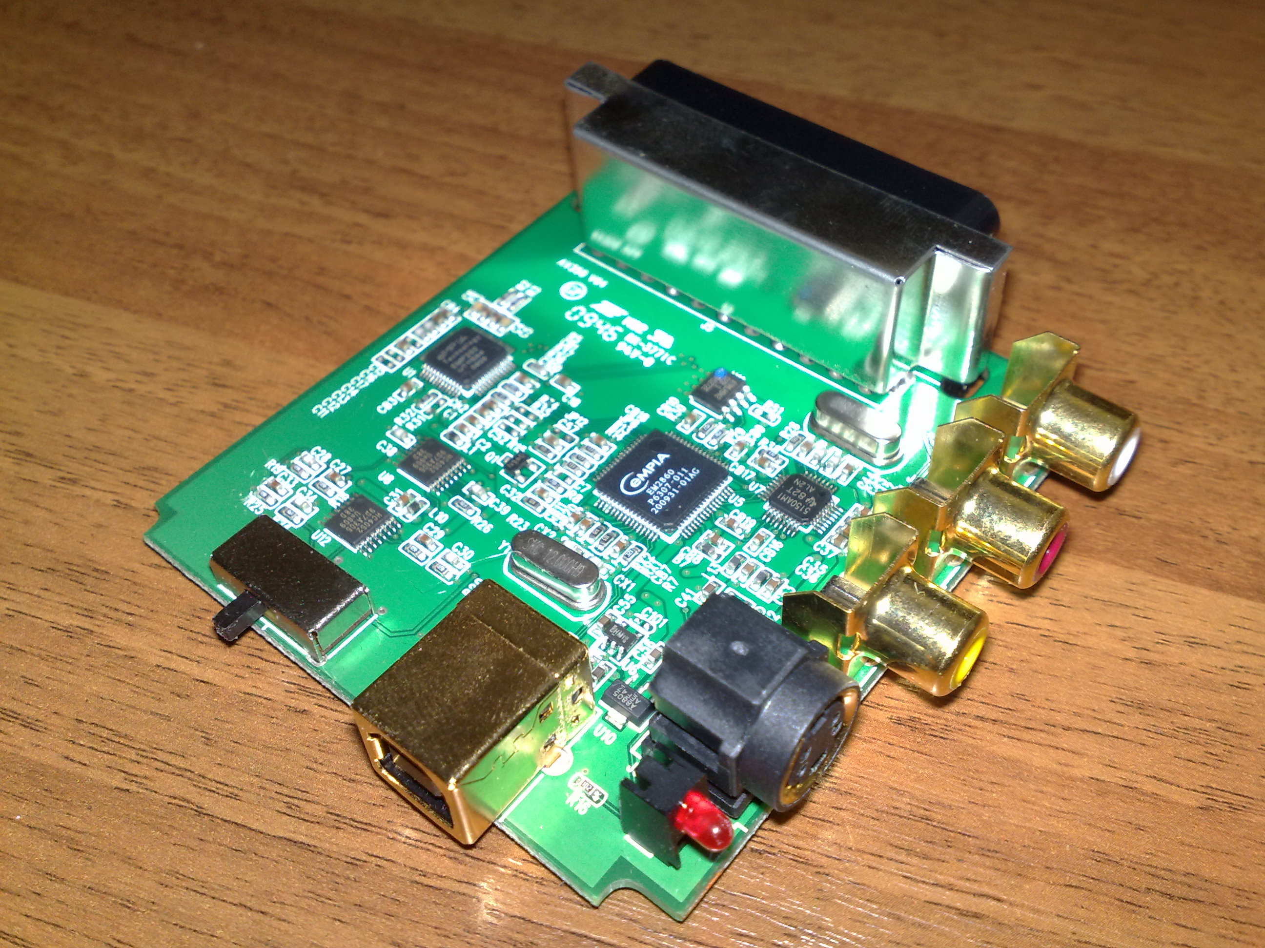 USB 2.0 video/audio capture device's circuit board. Software compression.